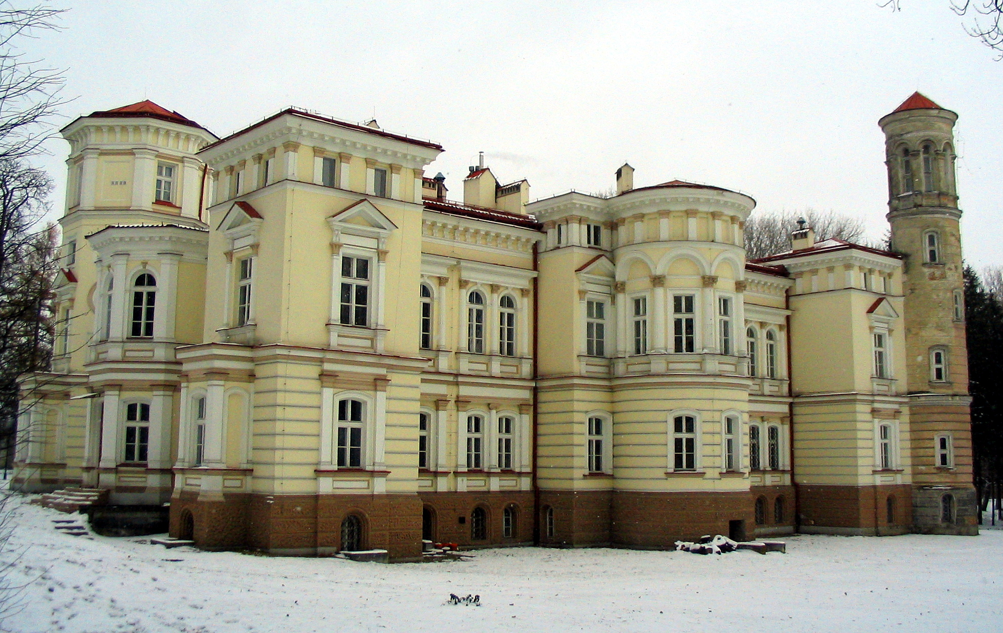 Lubomirski's Palace in Przemyśl, Poland. Państwowa Wyższa Szkoła Wschodnioeuropejska.